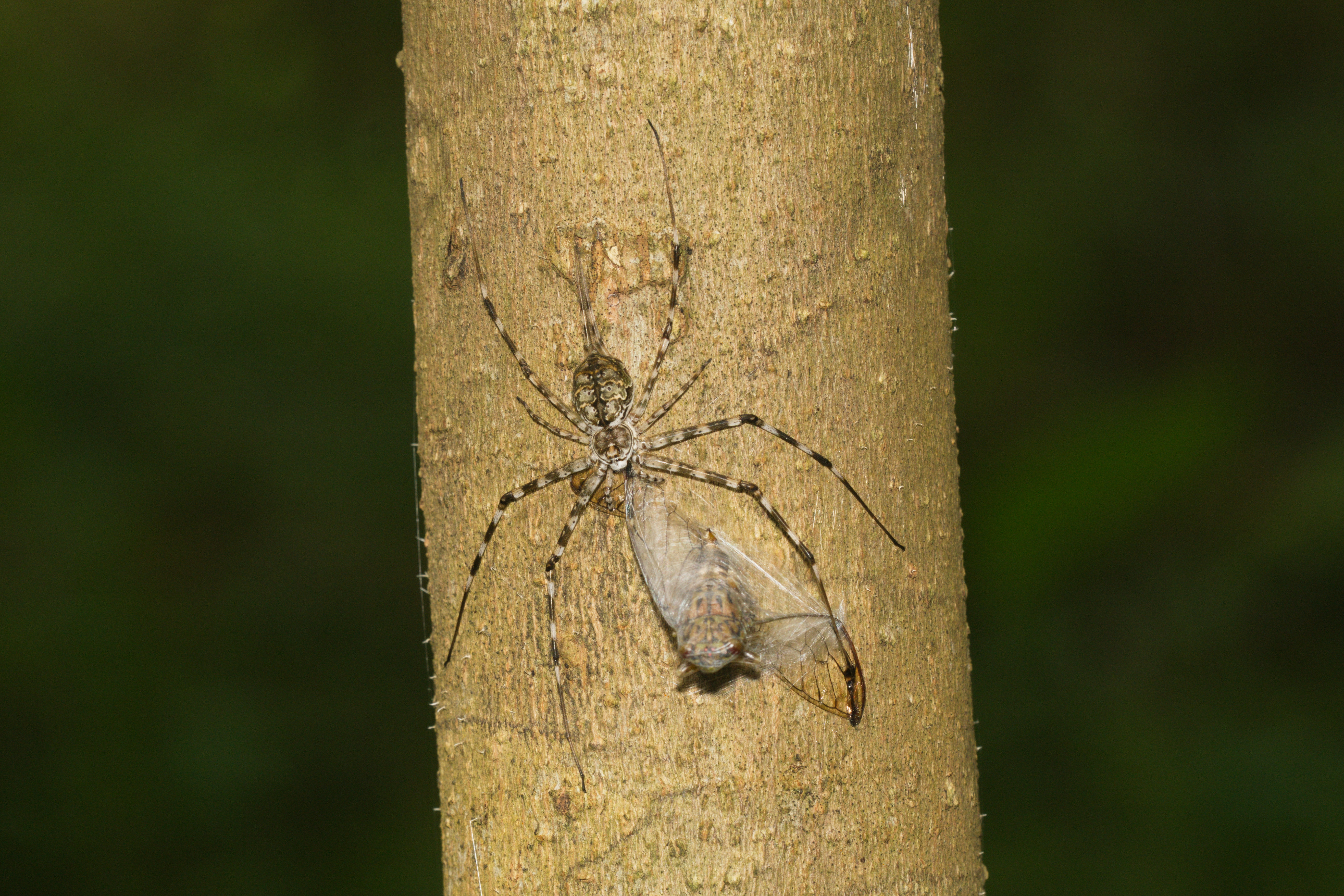 Hersilia is a spider genus of the Hersiliidae family. This may Hersilia savignyi. Here it is immobilizing a Cicada by wrapping around. It has lightning speed, giving the victim no chance to escape. Being very well camouflaged for life on the varicolored trunks of trees, they have an interesting way of capturing prey. Rather than making a web that captures prey directly, they lay a light coating of threads over an area of tree bark and wait hidden in plain sight for an insect to stray onto that patch. Once that occurs, they direct their spinnerets toward their prey and circle it; all the while casting silk on it. When the hapless insect has been thoroughly immobilized, they can bite it through its new shroud.